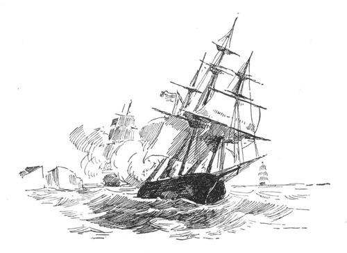 USS President tries to escape from HMS Endymion